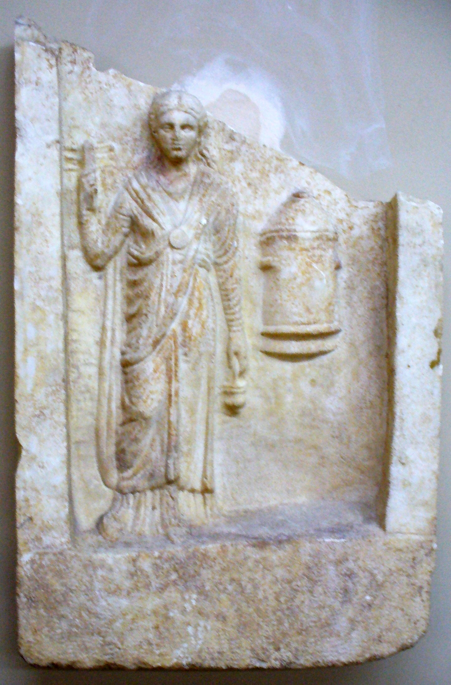 A 2nd century Roman representation of the goddess Isis (from Anatolia or Thrace). At the İstanbul Archaeological Museum. QuartierLatin1968 17:19, 6 December 2006 (UTC)